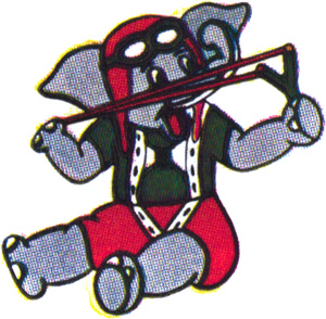 43d Troop Carrier Squadron - World War II Emblem (approved version does not include the "UA" on the helmet)